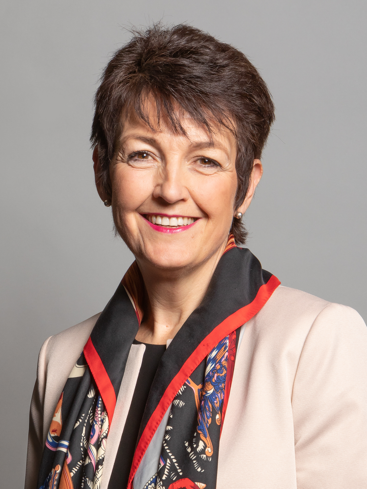 Official portrait of Jo Churchill MP 3×4 portrait of Jo Churchill